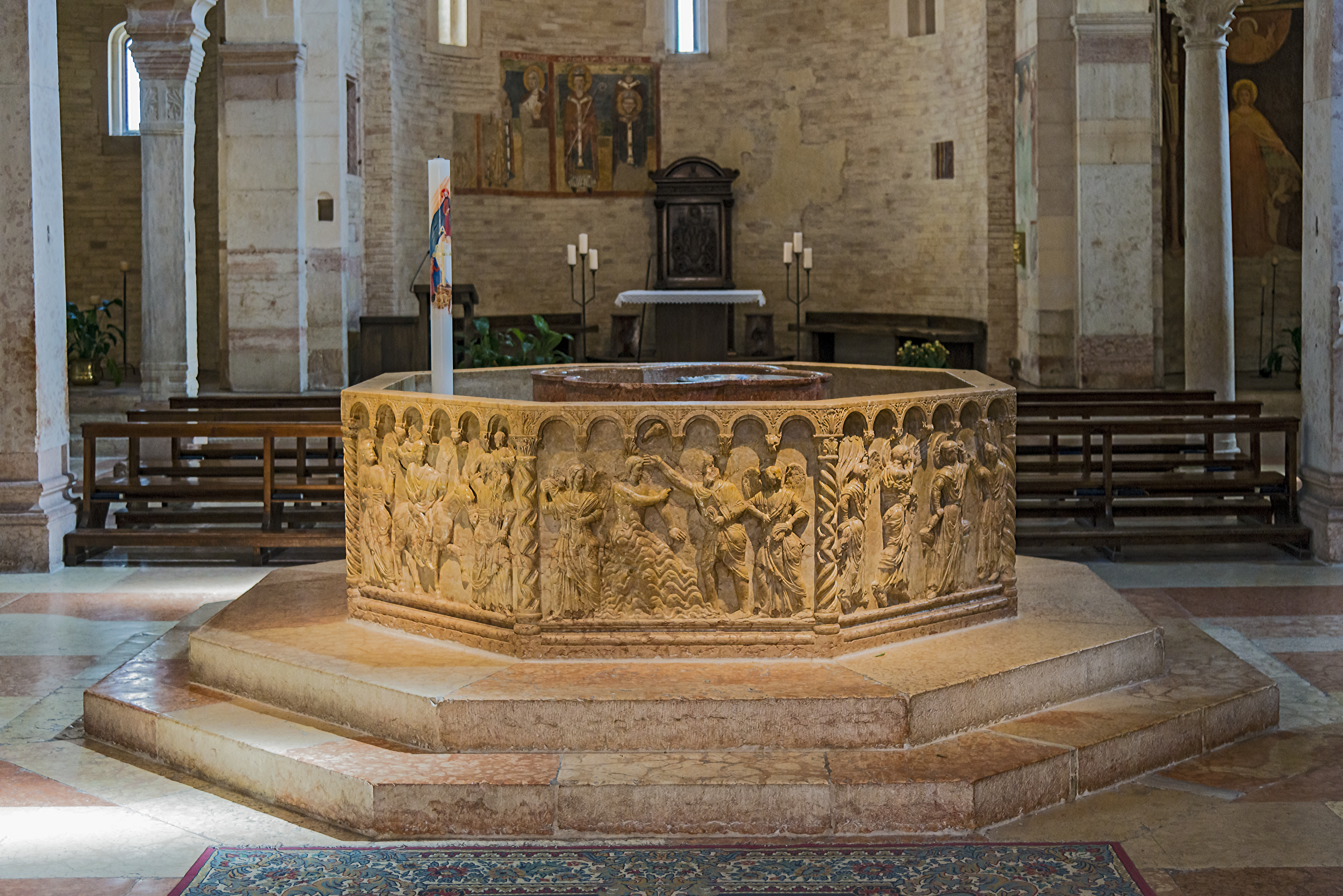 San Giovanni in Fonte - Old church included in the complex of the Verona Cathedral - The baptismal font of the late IX century.